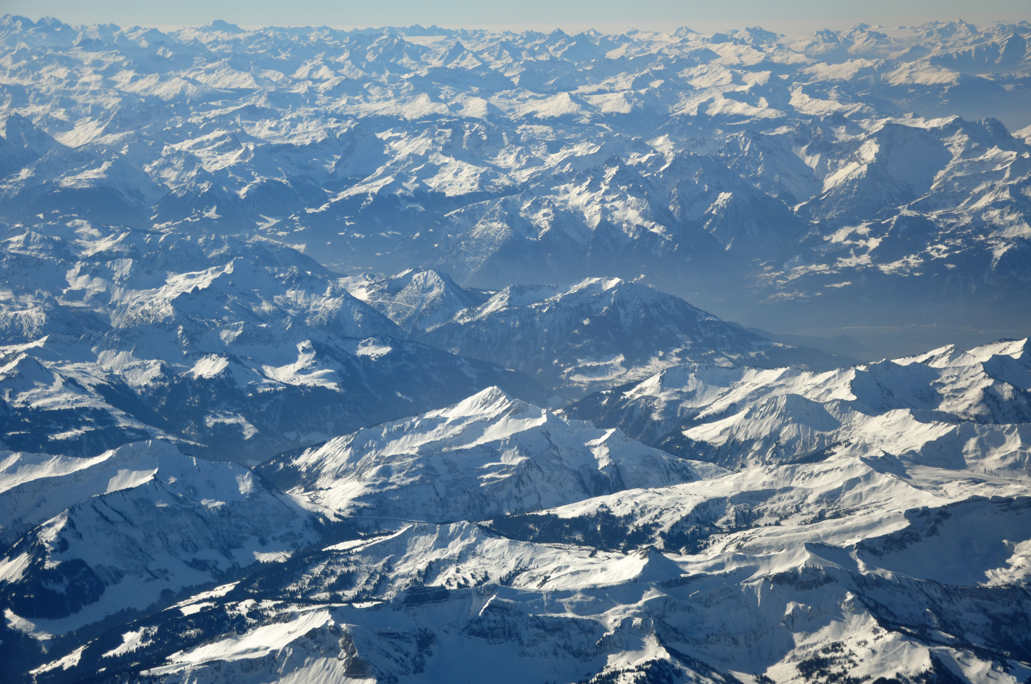 Austria, Alps from overhead Hirschau/Vorarlberg